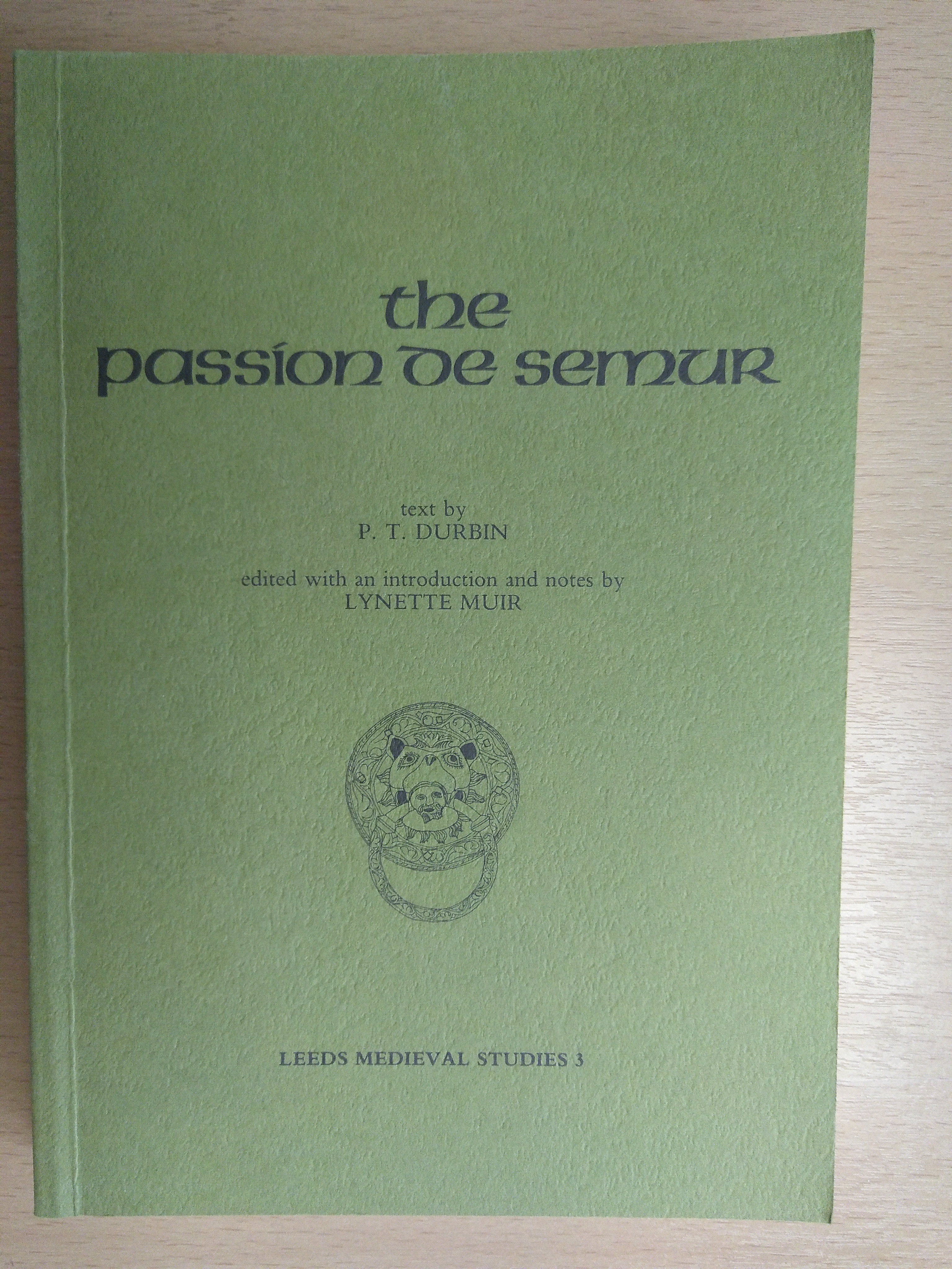 Cover of The Passion de Semur, ed. by P. T. Durbin and Lynette Muir (Leeds: The University of Leeds Centre for Medieval Studies, 1981).